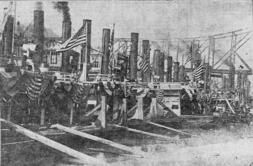 Bows of the decorated marine craft moored to the Pittsburgh Wharf just before the start of the grand water pageant, a parade which took place on 27 September 1913 celebrating Allegheny County, Pennsylvania's 125th anniversary. A parade of 30 steamboats sailed from Monongahela Wharf down the Ohio River to the Davis Island Dam. The boats in line were the Steel City (formerly the Pittsburgh and Cincinnati packet Virginia), the flag ship; City of Parkersburg, Charles Brown, Alice Brown, Exporter, Sam Brown, Boaz, Raymond Horner, Swan, Sunshine, I. C. Woodward, Cruiser, Volunteer, A. R. Budd, J. C. Risher, Clyde, Rival, Voyager, Jim Brown, Rover, Charlie Clarke, Robt. J. Jenkins, Slipper, Bertha, Midland Sam Barnum, Cadet, Twilight, and Troubadour. In this photo the Charlie Clarke is third from the front.